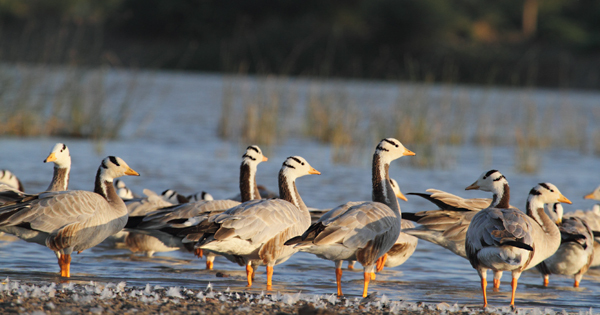 Bar-headed Geese resting on the bank of Magadi lake in Karnataka, India. Photo: Samad Kottur